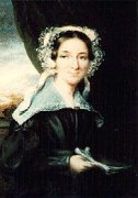 Painted Portrait of Eliza Jones (nee Fields)